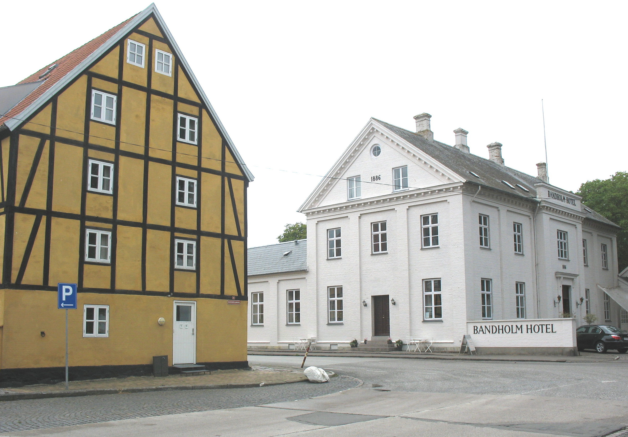 Street from the small town "Bandholm" located on the Danish island Lolland.